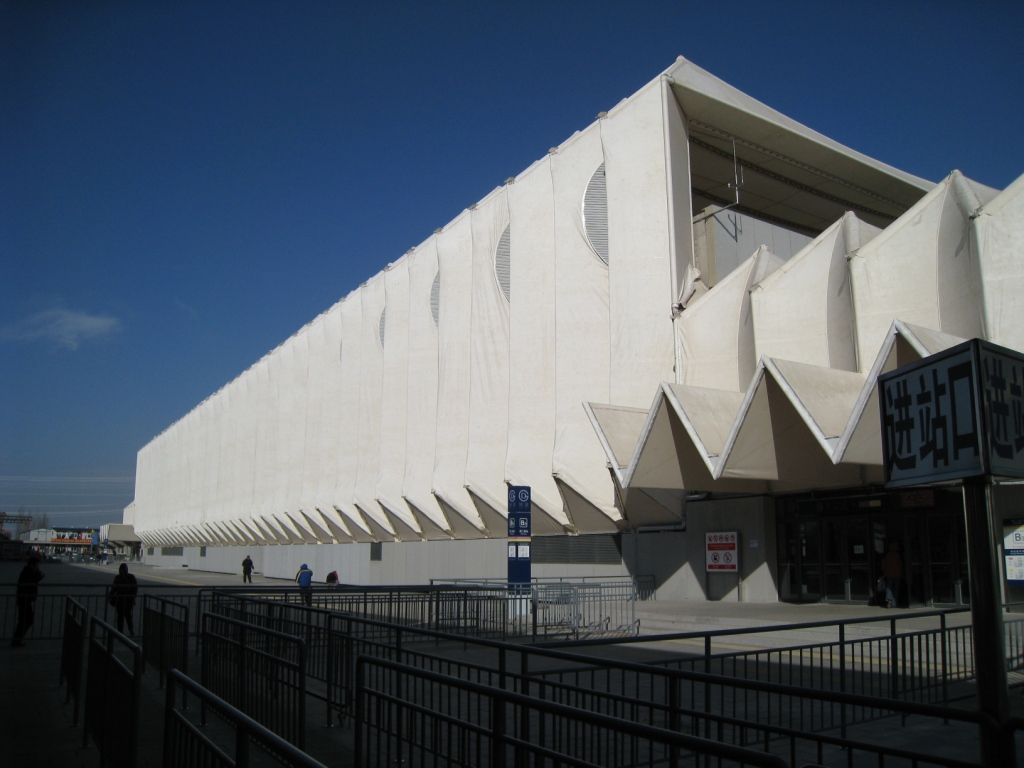 The new Xi'erqi station of Changping Line & Line 13, Beijing Subway. 中文（中国大陆）: 北京地铁13号线和昌平线的西二旗新站